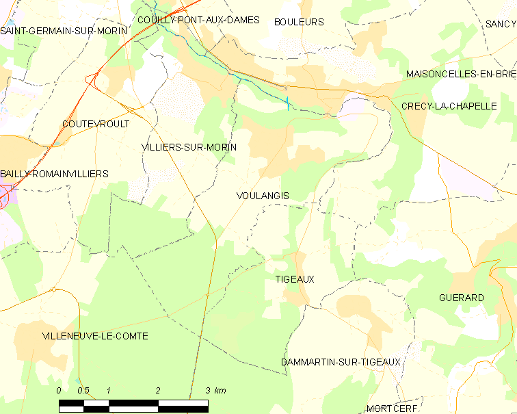 Map of French municipality Voulangis